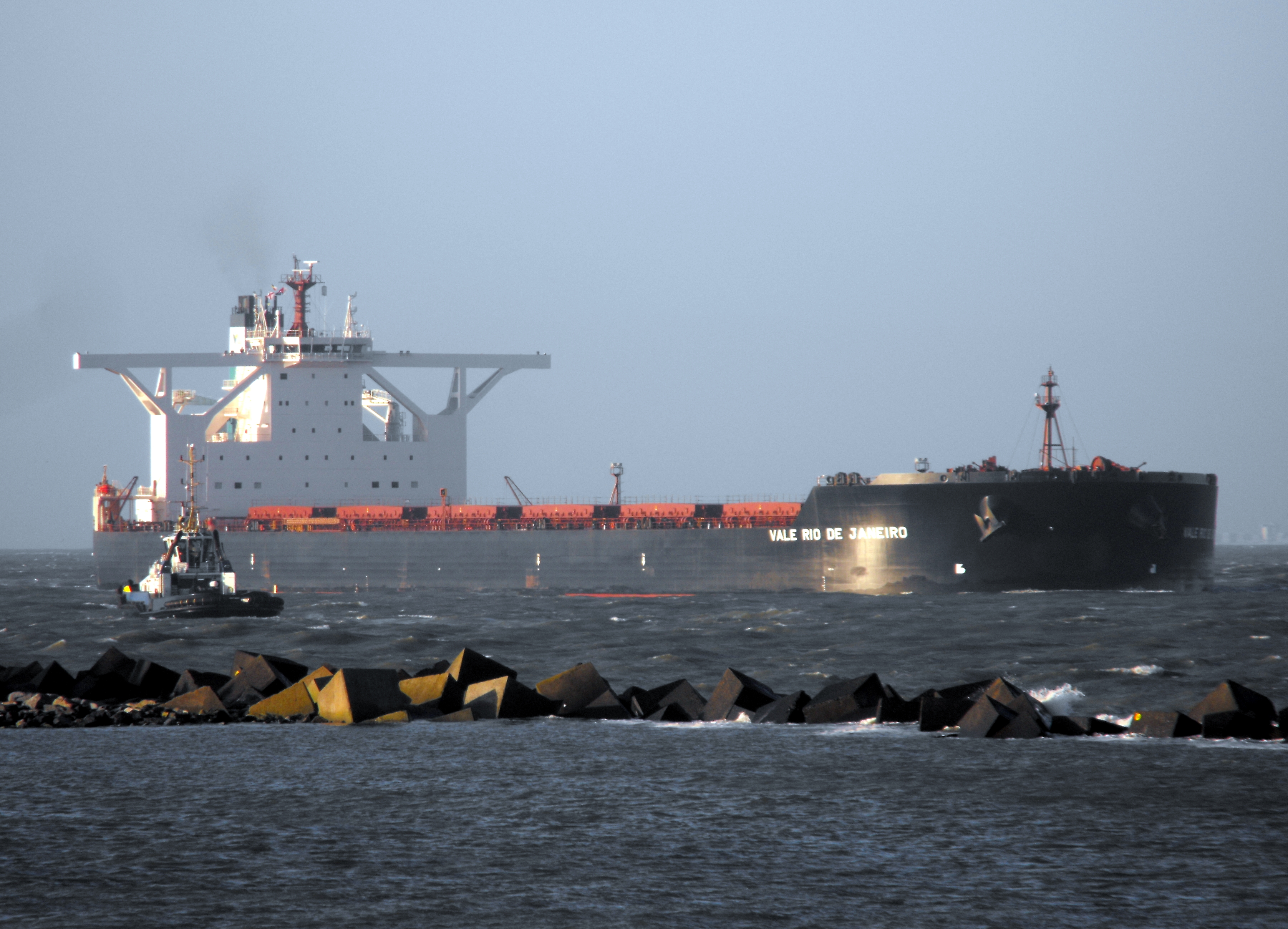 Vale Rio de Janeiro (IMO 9572329), one of the world's largest bulk carriers, arriving at Rotterdam on 8 January 2012.